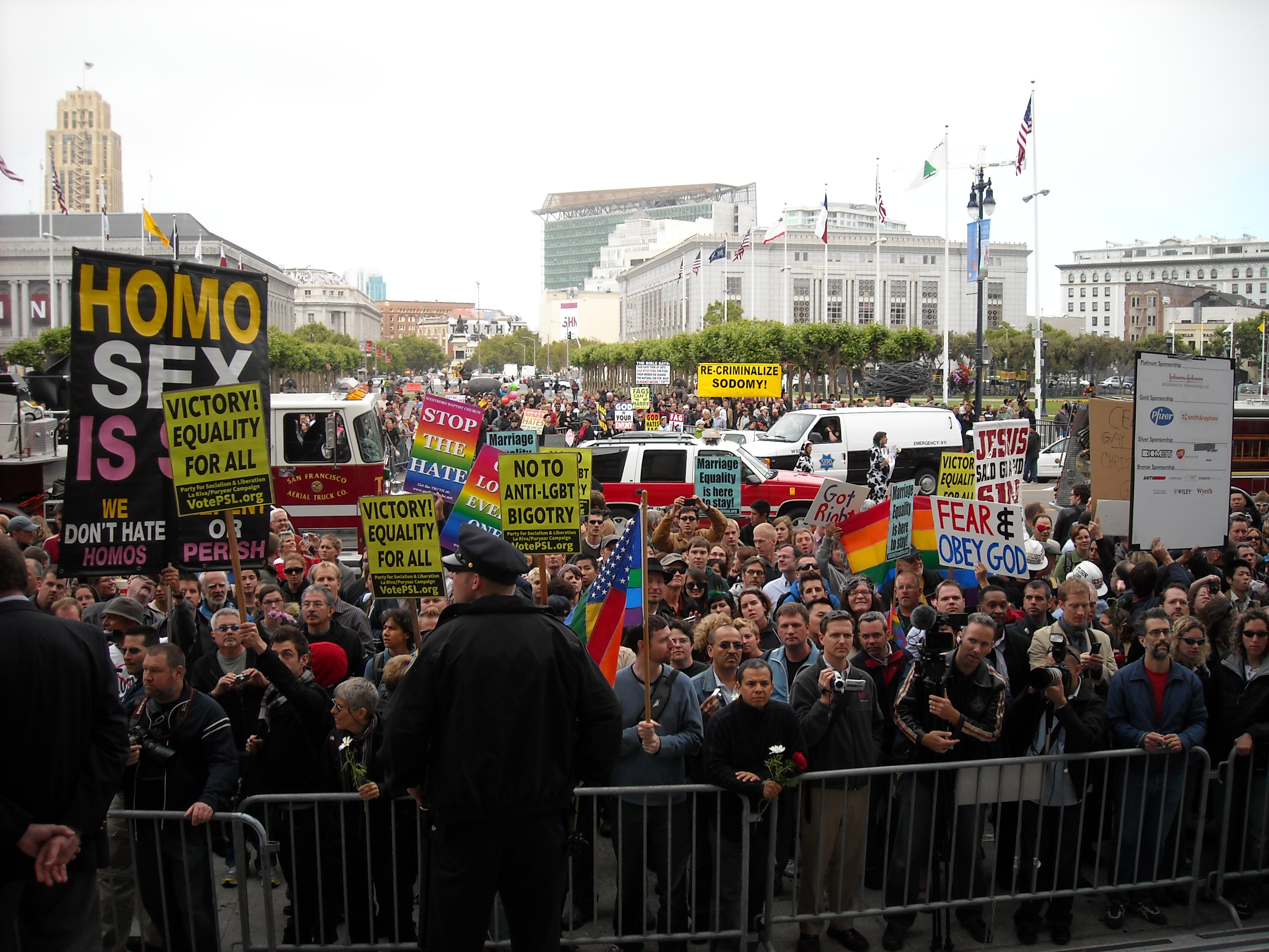 Marriage of Del Martin and Phyllis Lyon by San Francisco Mayor Gavin Newsom. Outside City Hall after wedding.